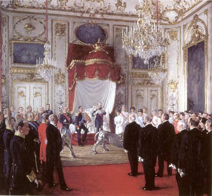 A Norwegian delegation is received by Christian IX at Amalienborg to get his concent for the choise of Prince Carl as new elected king of Norway.